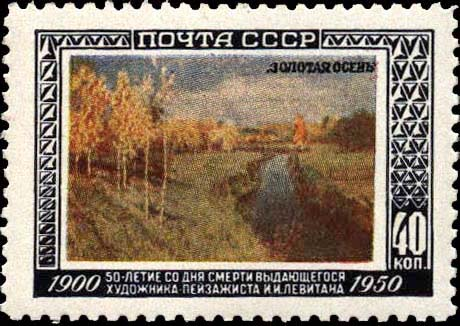 Isaac Levitan, "Golden Autumn", USSR postal stamp, 1950